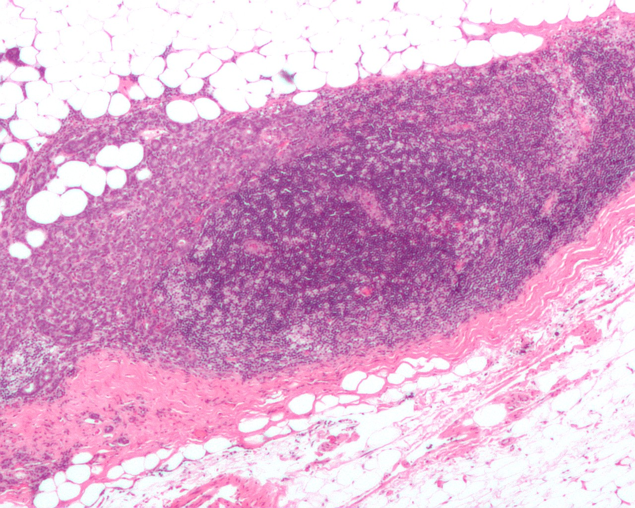 Micrograph showing a lymph node invaded by ductal breast carcinoma and with extranodal extension of tumour. The dark purple (center) is lymphocytes (part of a normal lymph node). Surrounding the lymphocytes and extending into the surrounding fat (top of image) is ductal breast carcinoma. H&E stain. See also Image:Crc met to node1.jpg - met to a lymph node in colorectal cancer. Image:Lymph node with papillary thyroid carcinoma.jpg - met to a lymph node in papillary thyroid carcinoma.